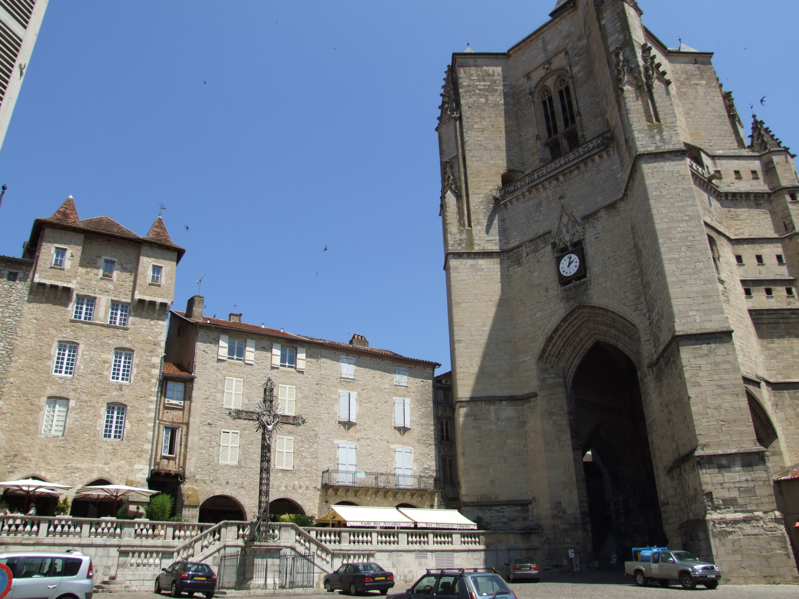 Villefranche-de-Rouergue, Aveyron, FRANCE